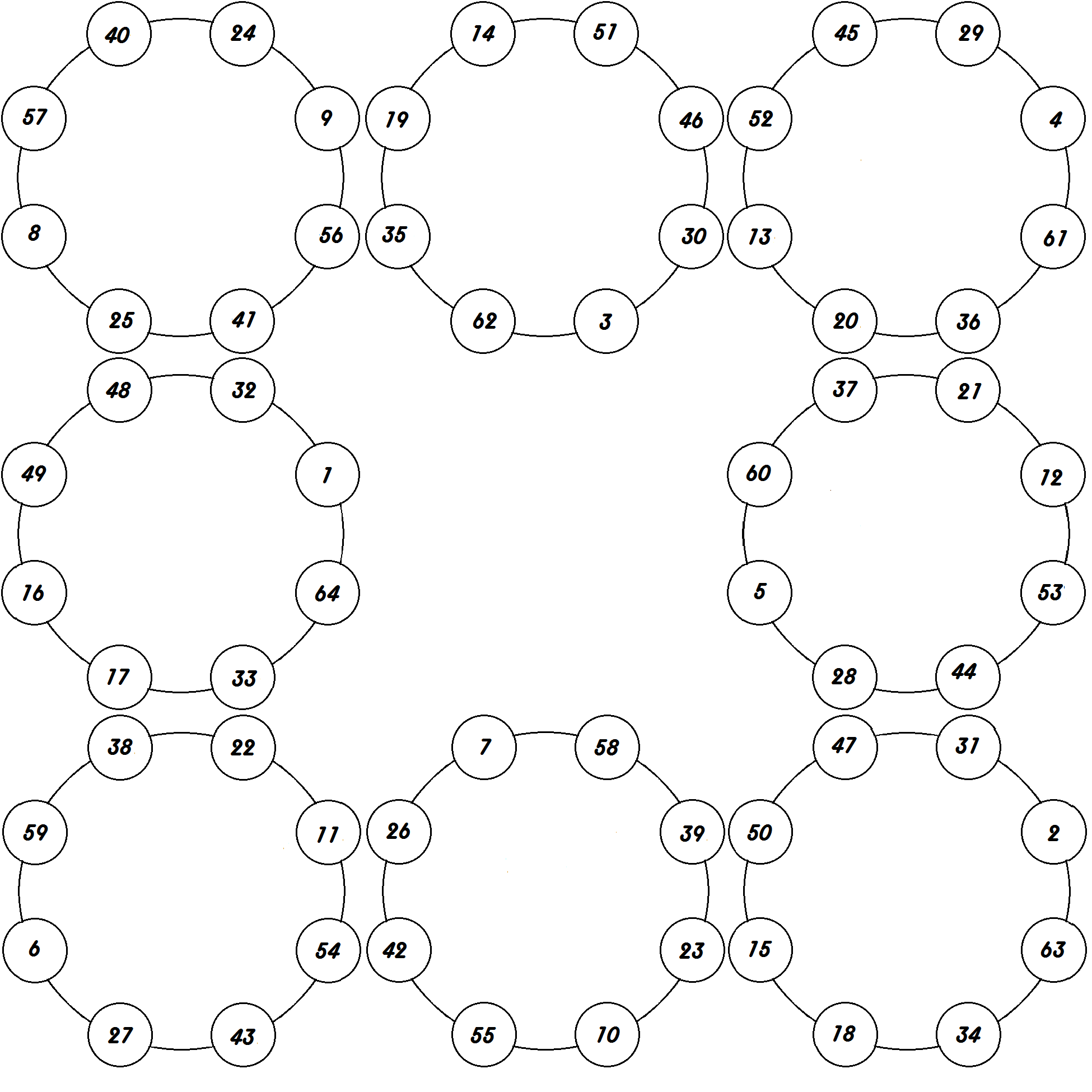 Based on File:YangHui magic circle 1.jpg and Magic circle (mathematics)